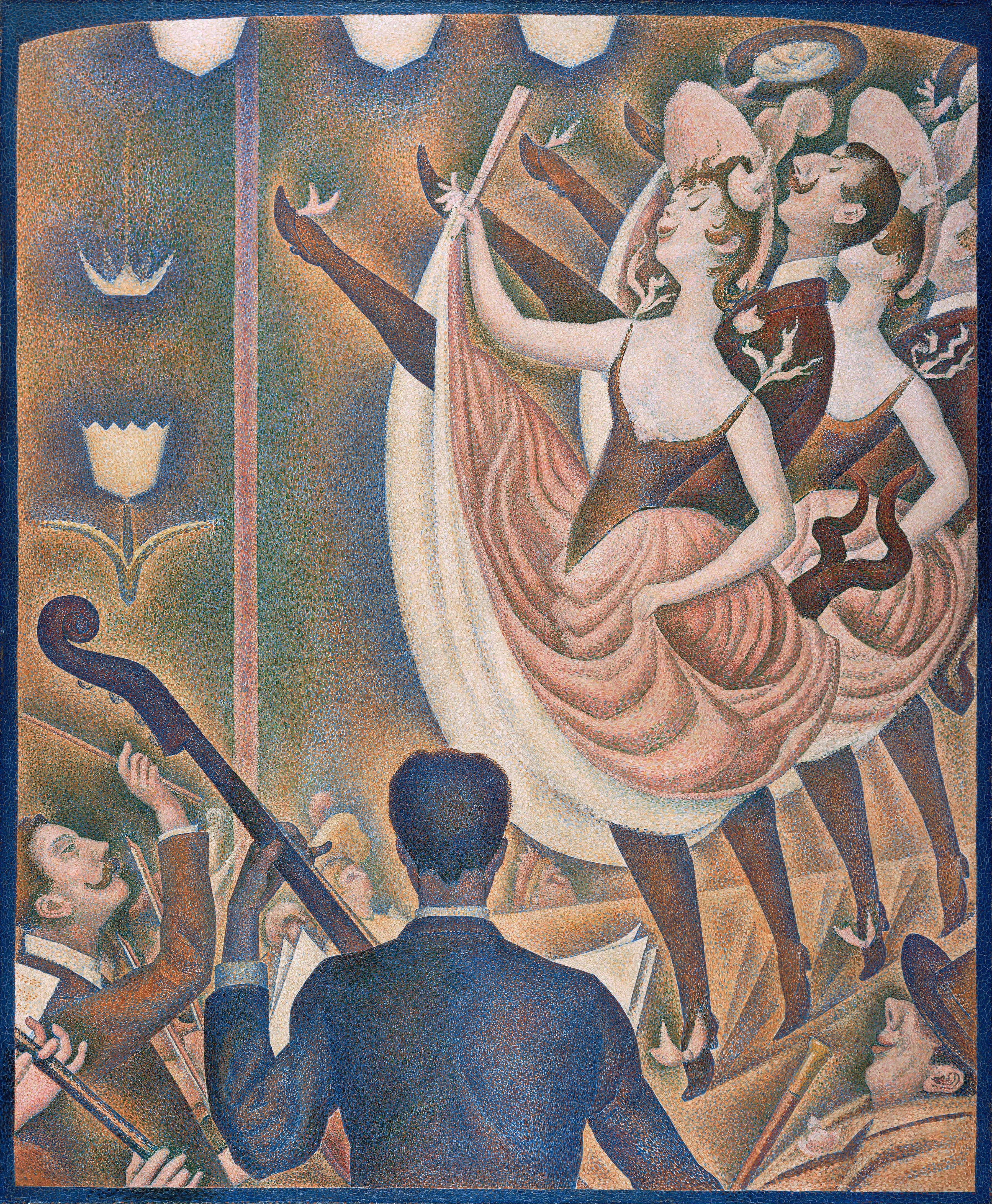 Can-can